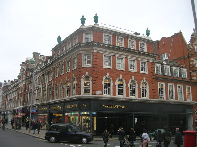 Waterstones, Kensington High Street, London W8 At Junction with Allen Street, London W8